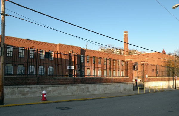 Picture of Schiller Elementary School (also known as Schiller School) located at 1018 Peralta Street in the East Allegheny neighborhood of Pittsburgh, Pennsylvania, on December 1, 2009. The school was built in 1939, and is listed on the National Register of Historic Places. Architects: Marion M. Steen (1886–1966), Edward J. Weber (1877–1968), Edward Crump, Jr., Inc. Architectural style: Art Deco. The school is still in use today, as part of the Pittsburgh Public School System, and is known as Schiller Classical Academy (also known as Schiller Classical Academy Middle School).